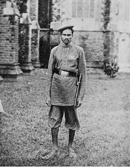 Bombay Policeman, probably during the 19th century